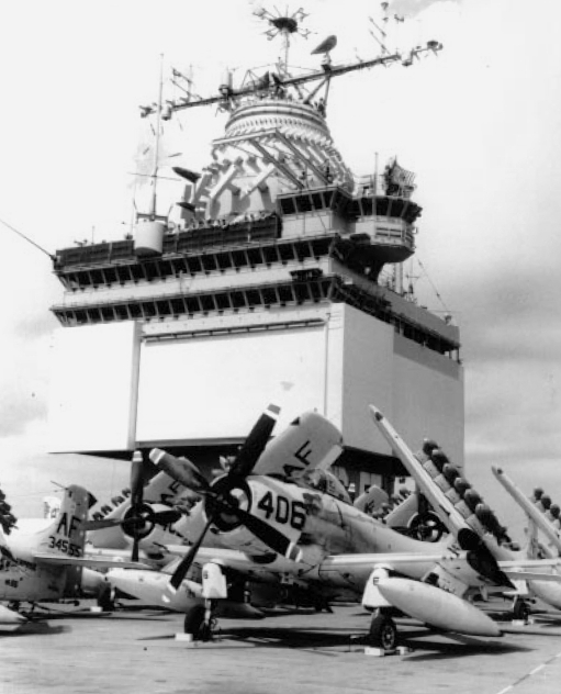 Armed U.S. Navy Douglas A-1H Skyraider aircraft from Attack Squadron 65 Tigers sit on the filght deck of the aircraft carrier USS Enterprise (CVAN-65) during the Cuban Missile Crisis. VA-65 was assigned to Carrier Air Group 6 aboard the Big E.